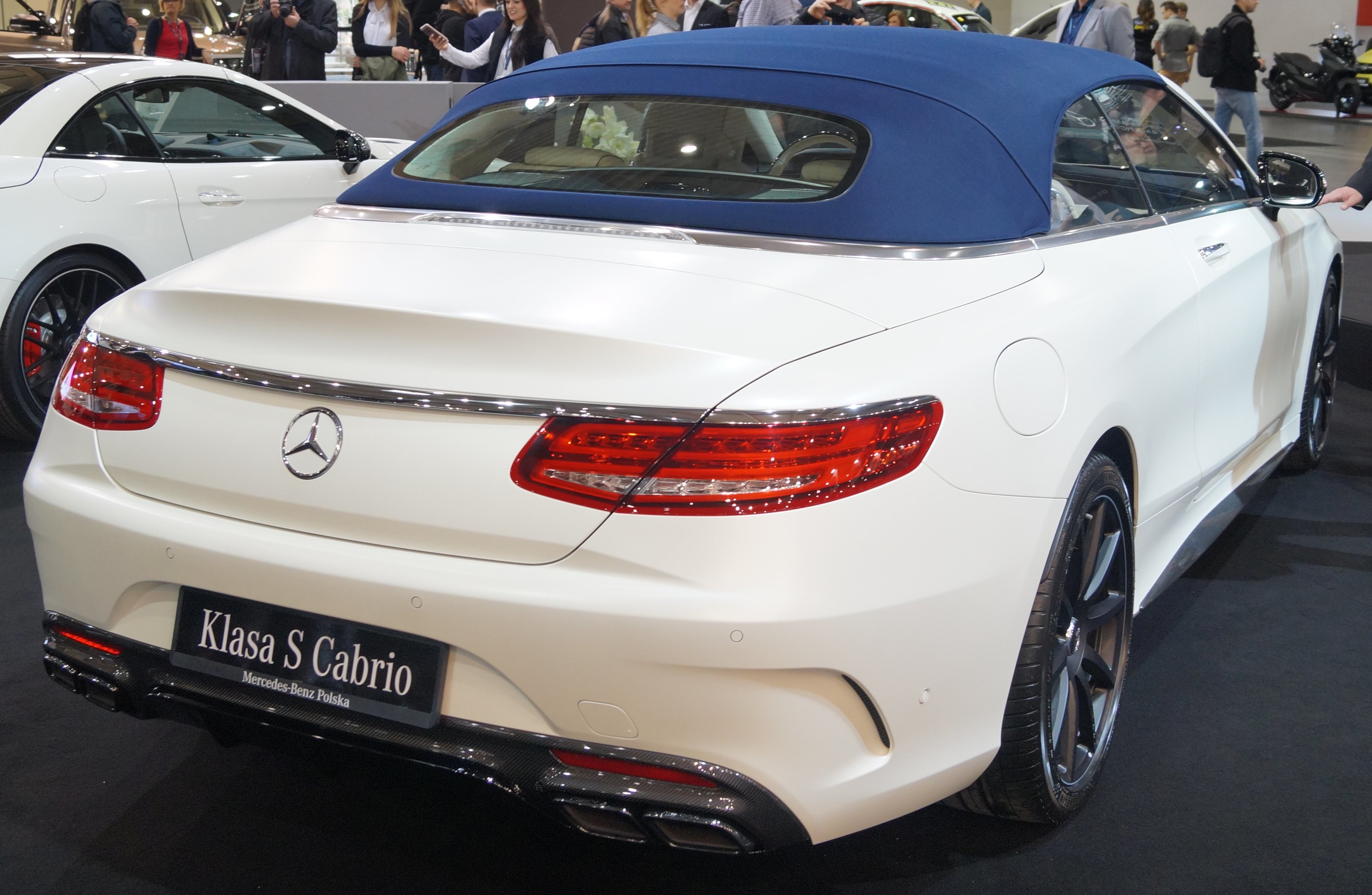 The making of this document was supported by Wikimedia Polska Association, within Wikigrant no. WG 2016-10. Tył Mercedesa-Benz S 63 Cabrio (A217) na Motor Show Poznań 2016